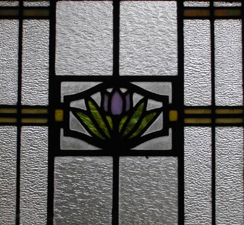 Art glass window of tulip lotus on water glass designed by W.J.Dodd